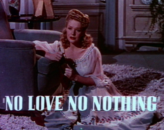 Cropped screenshot of Alice Faye from the trailer for the film The Gang's All Here